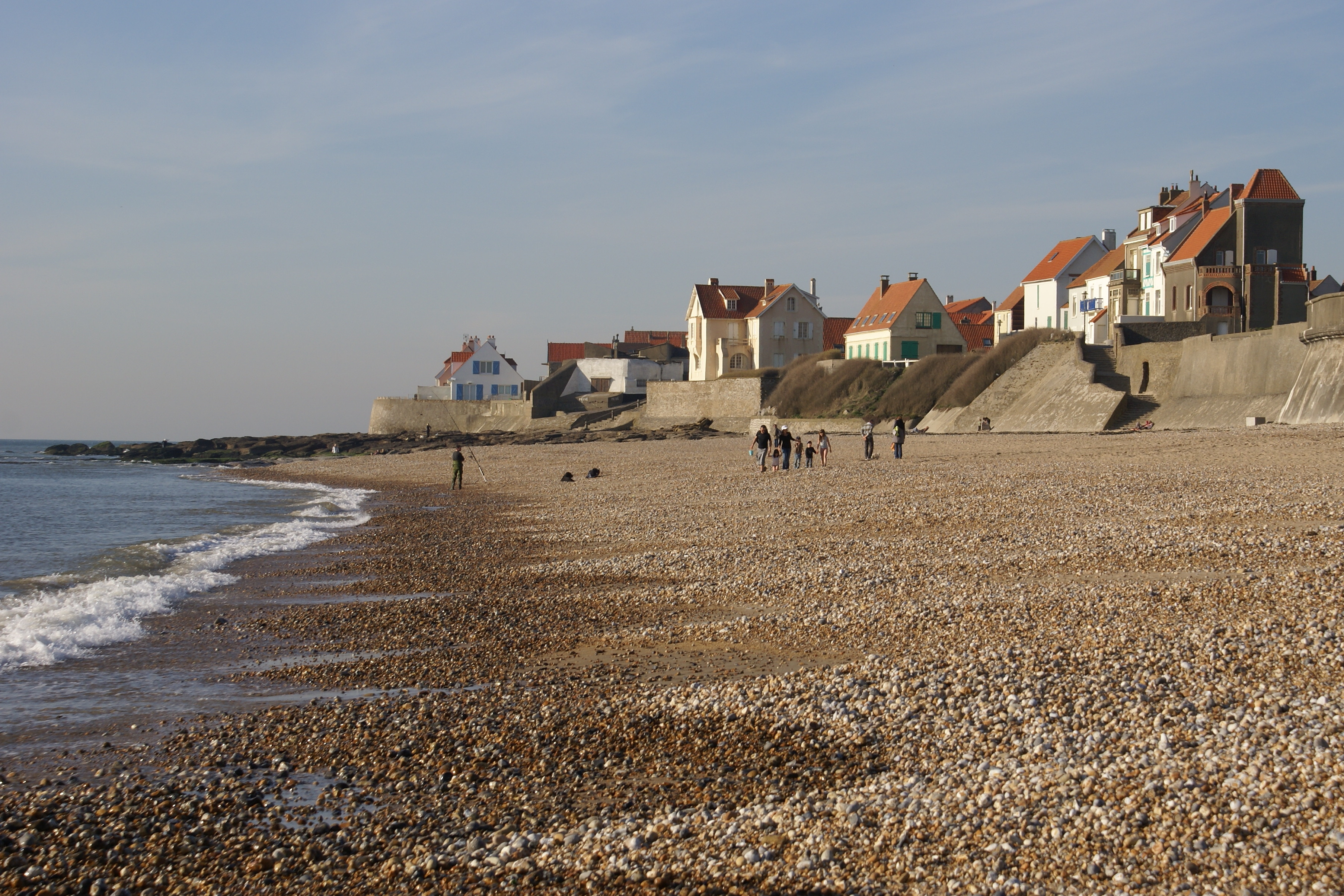 Seafront of the village of Audresselles seen from the beach